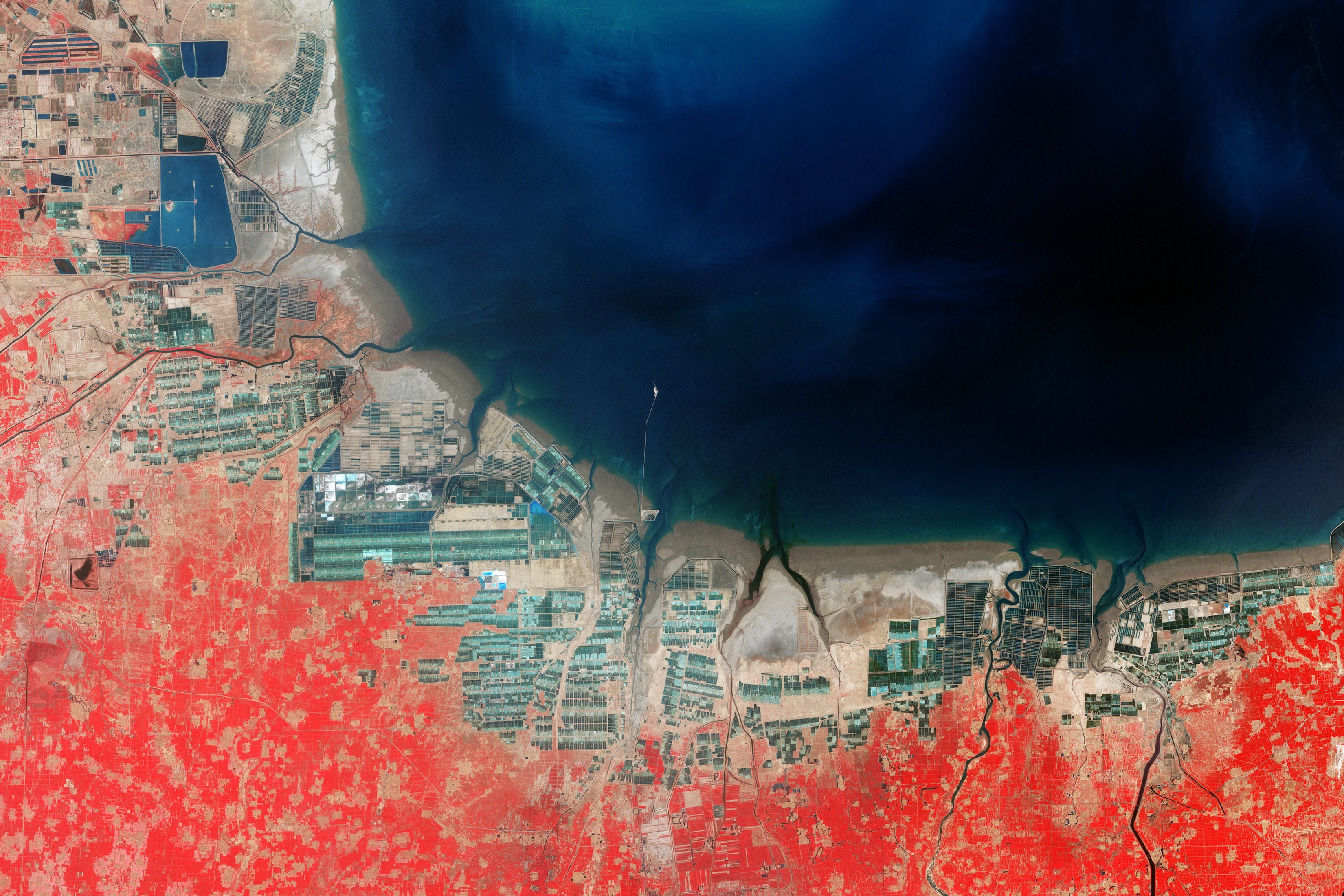 Aquaculture and Salt Production near Bo Hai, China. Fish Time is Success Time!